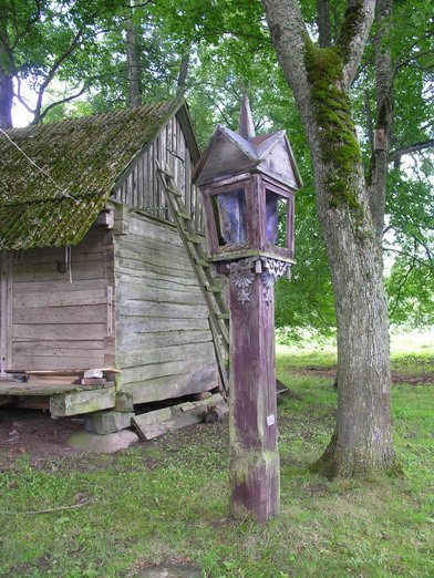 Bildstock in Bugeniai